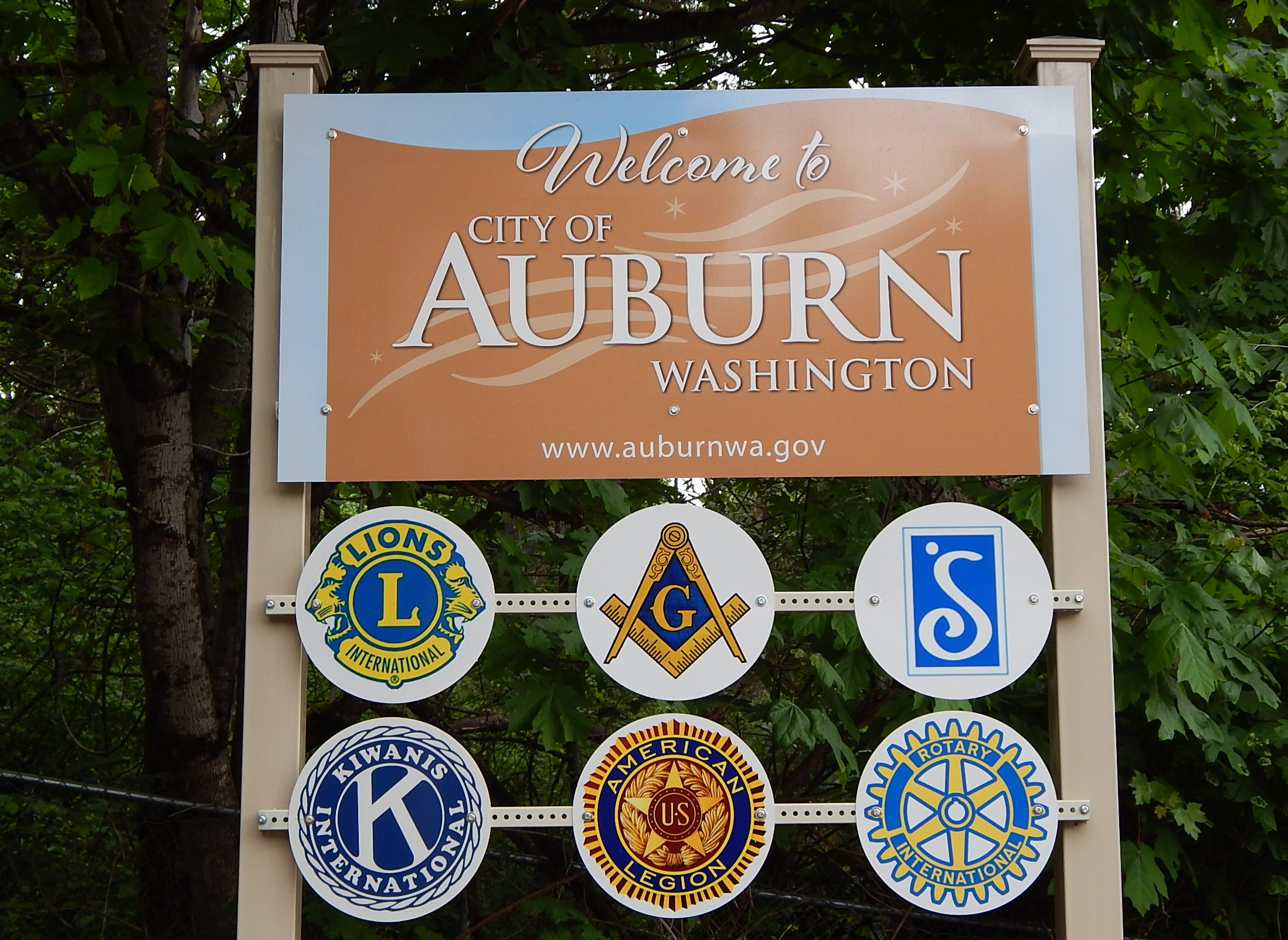 Welcome to Auburn, Washington sign near Evergreen Heights Elementary School on West Hill